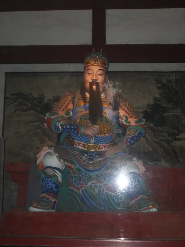 A statue of Liao Hua in Zhuge Liang's temple at Chengdu, China. It was crafted in 1849.